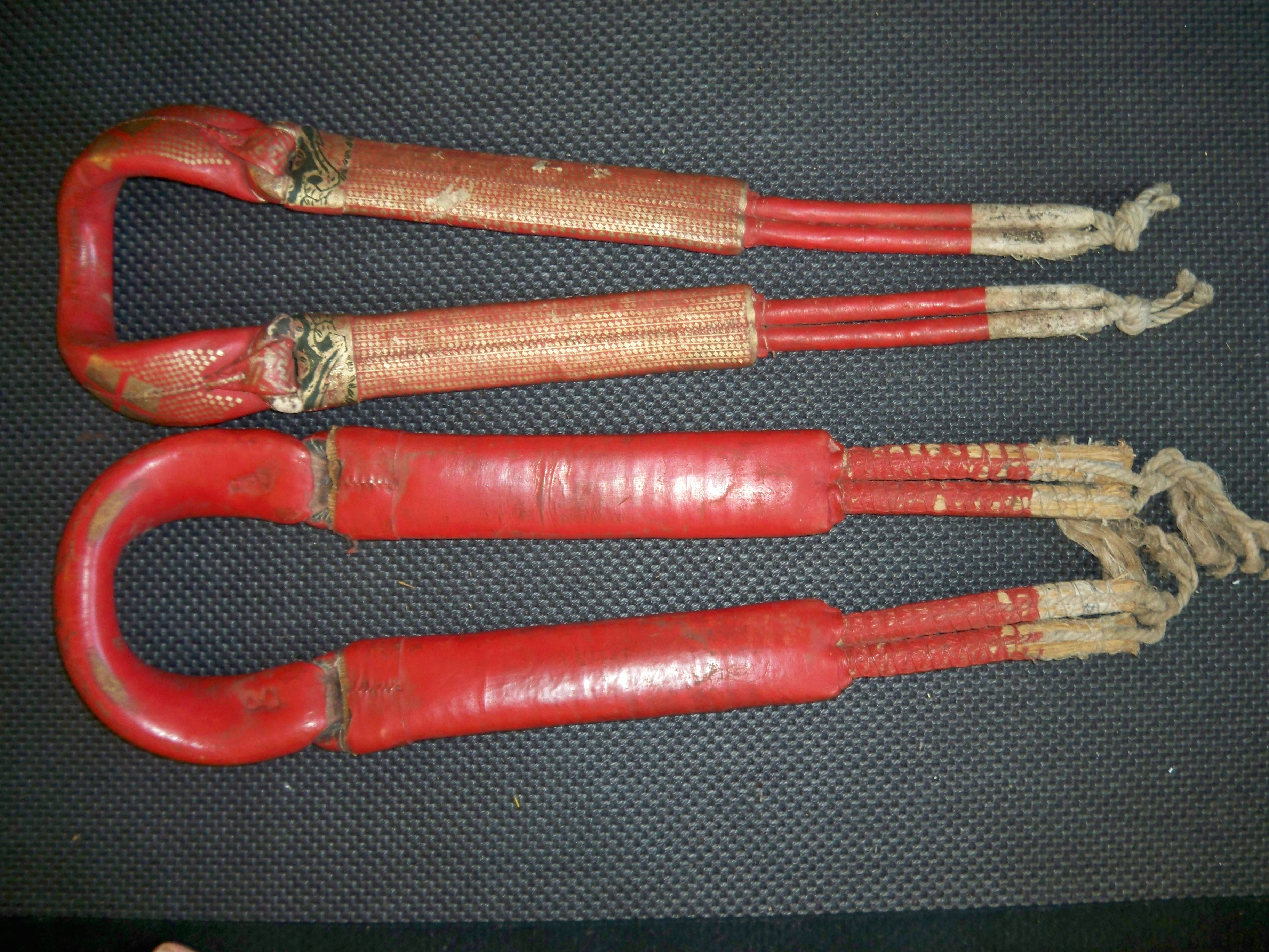 Antique Japanese (samurai) pack saddle shirigai (crupper). The shirigai was a leather strap used to secure a Japanese saddle (kura) to the horse by looping under a horse's tail and attaching to the saddle to keep it from slipping forward.